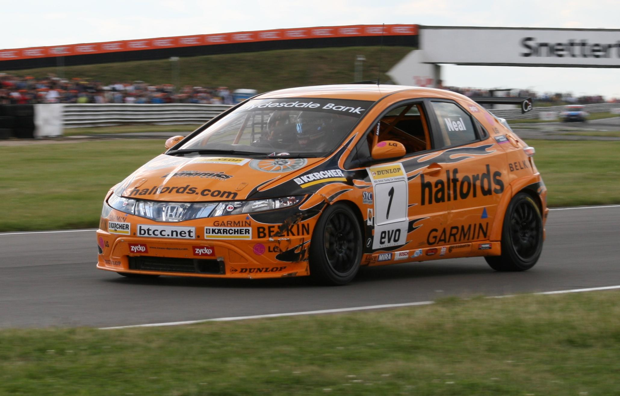 Matt Neal driving a Honda at the Snetterton round of the 2007 BTCC season.